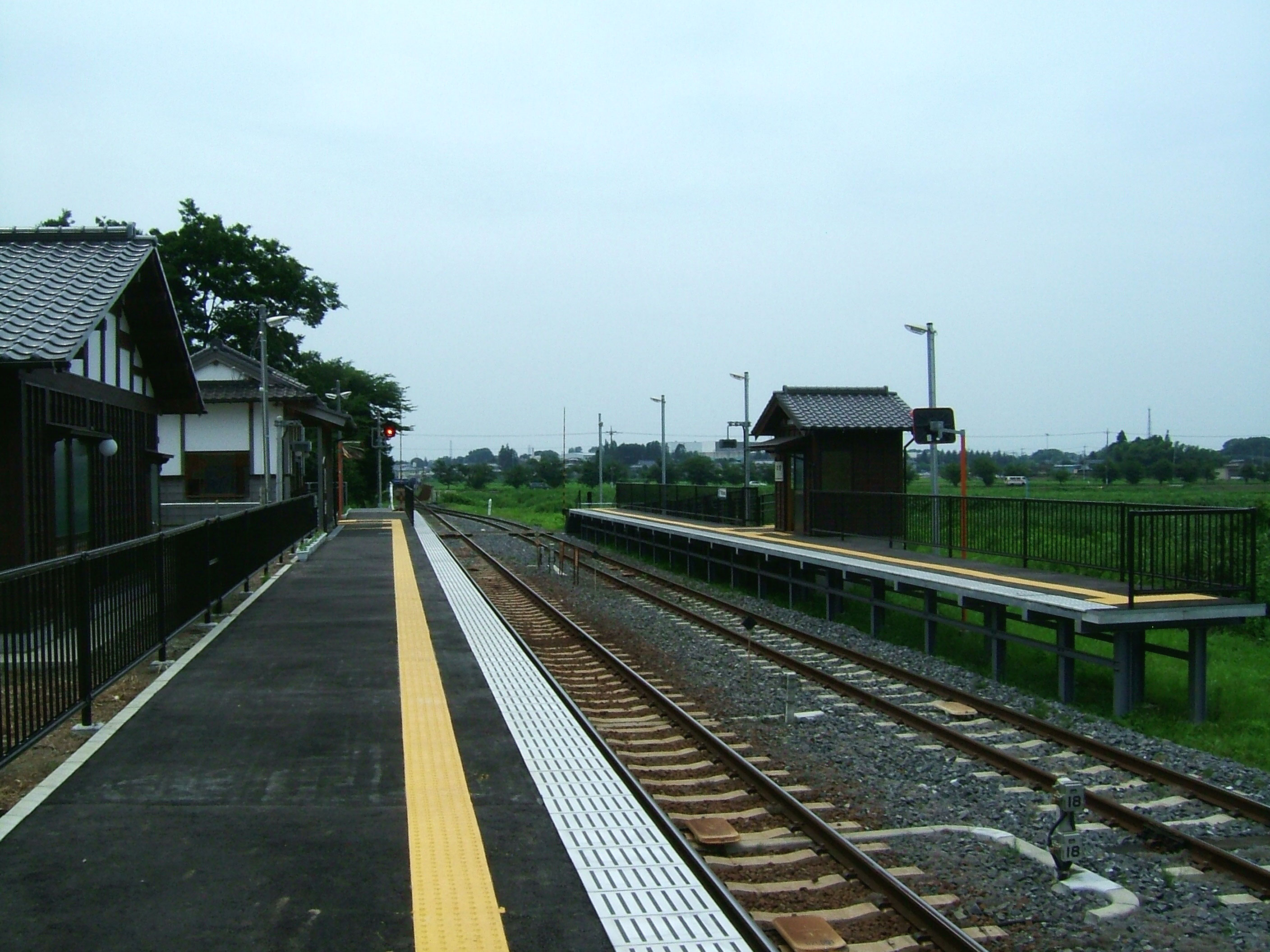 Daihō Station platform (Kanto Railway Jōsō Line)